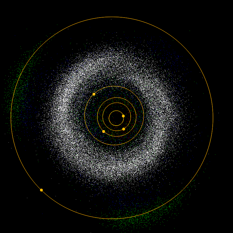 A plot of inner solar system asteroids and planets as of 2006 May 9. Planets (with trajectories) are orange, Jupiter being the outer most in this view. Various asteroid classes are colour coded: 'generic' main-belt are white. Inside the main belt, we have the Aten's (red), Apollo (green) and Amor (blue). Outside the main belt, the Hilda (blue) and the Trojan's (green).